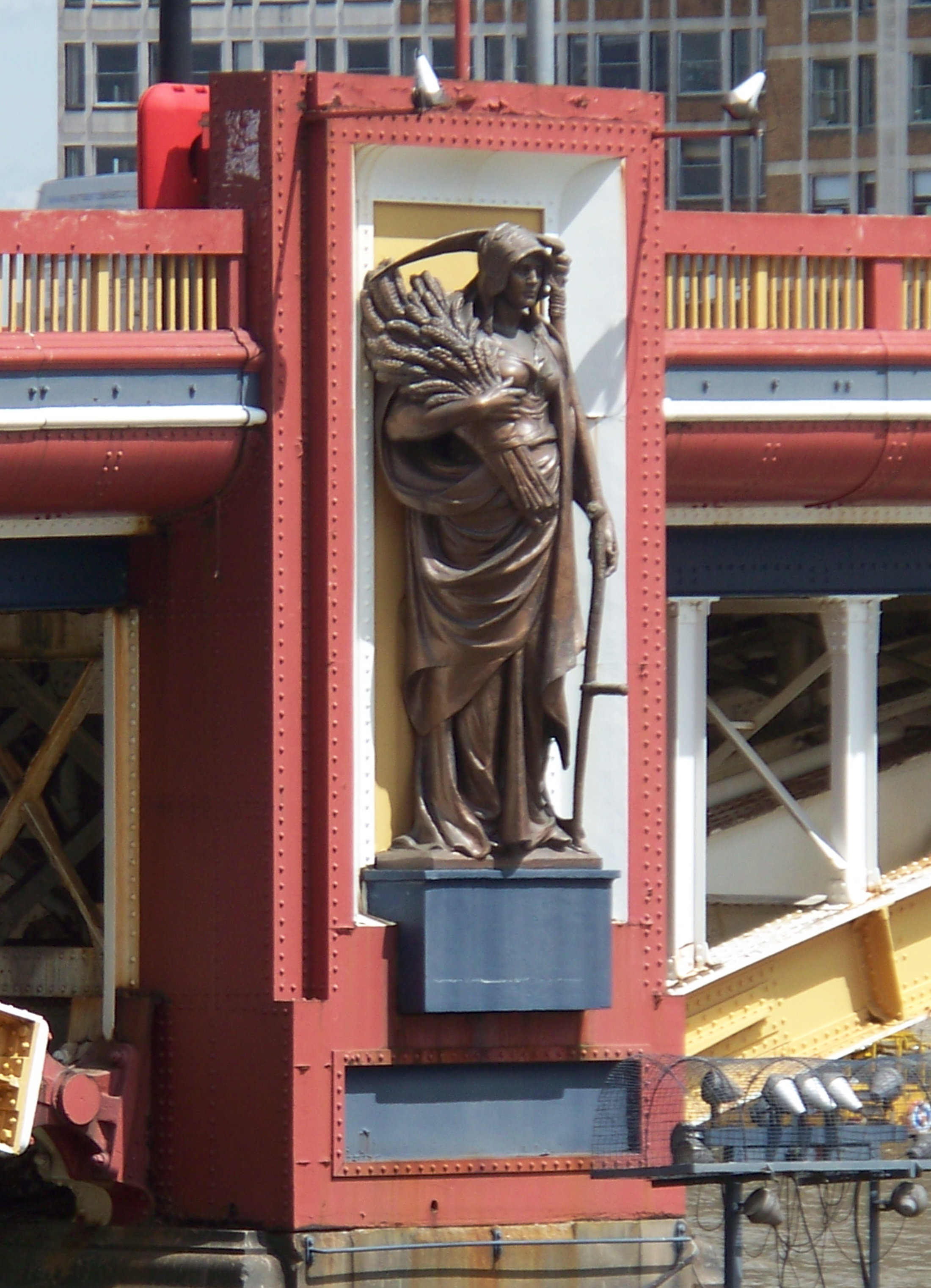 Agriculture by Frederick Pomeroy, 1907. Vauxhall Bridge, London. Photograph taken in a public location in the UK of a building on permanent public display, and exempt from copyright under Section 62 of the Copyright Designs & Patents Act 1988 ("it is not an infringement of copyright to film, photograph, broadcast or make a graphic image of a building, sculpture, models for buildings or work of artistic craftsmanship if that work is permanently situated in a public place or in premises open to the public")